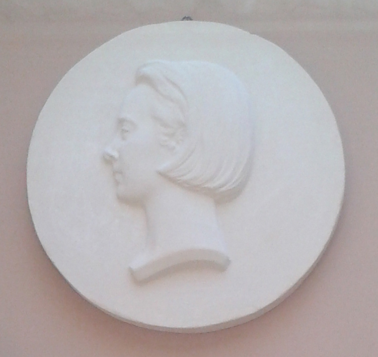 Cropped from a photograph I took. Original is in the Vilnius Picture Gallery in Vilnius. The artist died in 1874, so it's in the public domain.